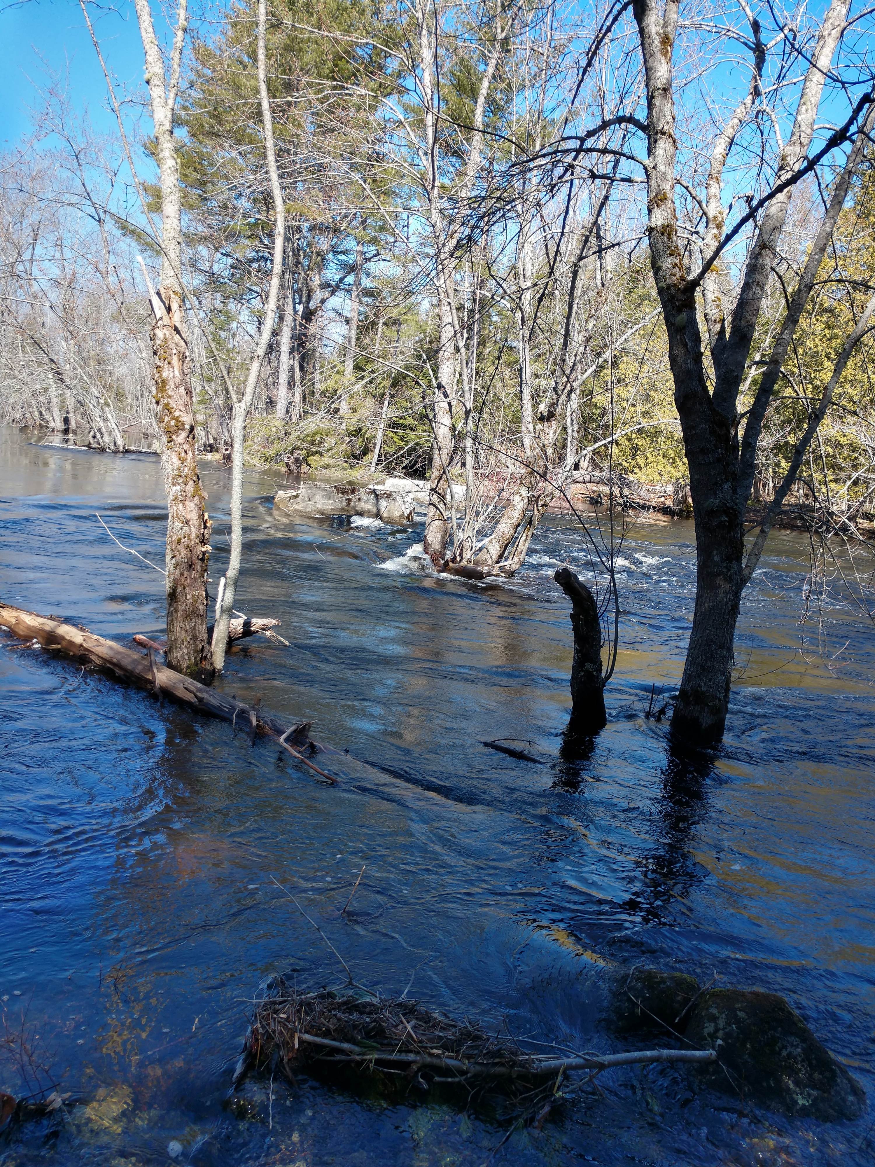 A photo of the Pushaw Stream in the Hirundo Wildlife Refuge in Penobscot County, Maine. Taken during the spring flooding season.